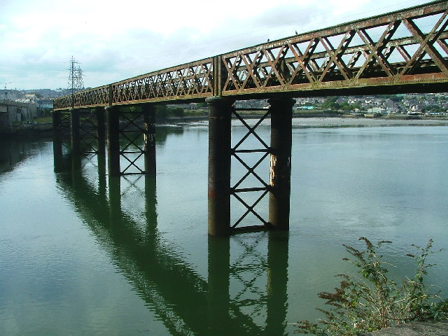 Laira Bridge, Plymouth. Lying adjacent to the busy Plymouth-Plymstock main road, as it crosses the Plym, is the neglected railway bridge. How long it will remain, with discussions on-going over a second road cross and/or a light railway replacement remains to be seen.